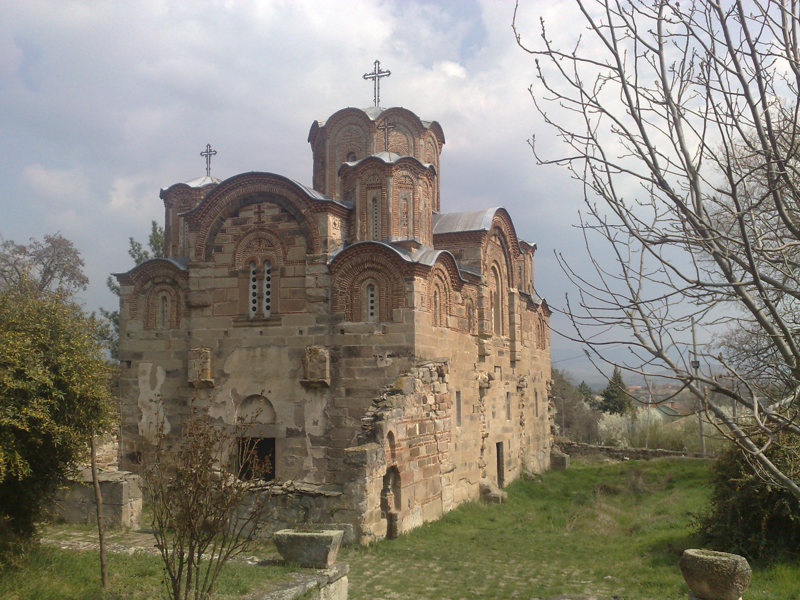 The medieval church of St.George in Staro Nagoricane, Macedonia